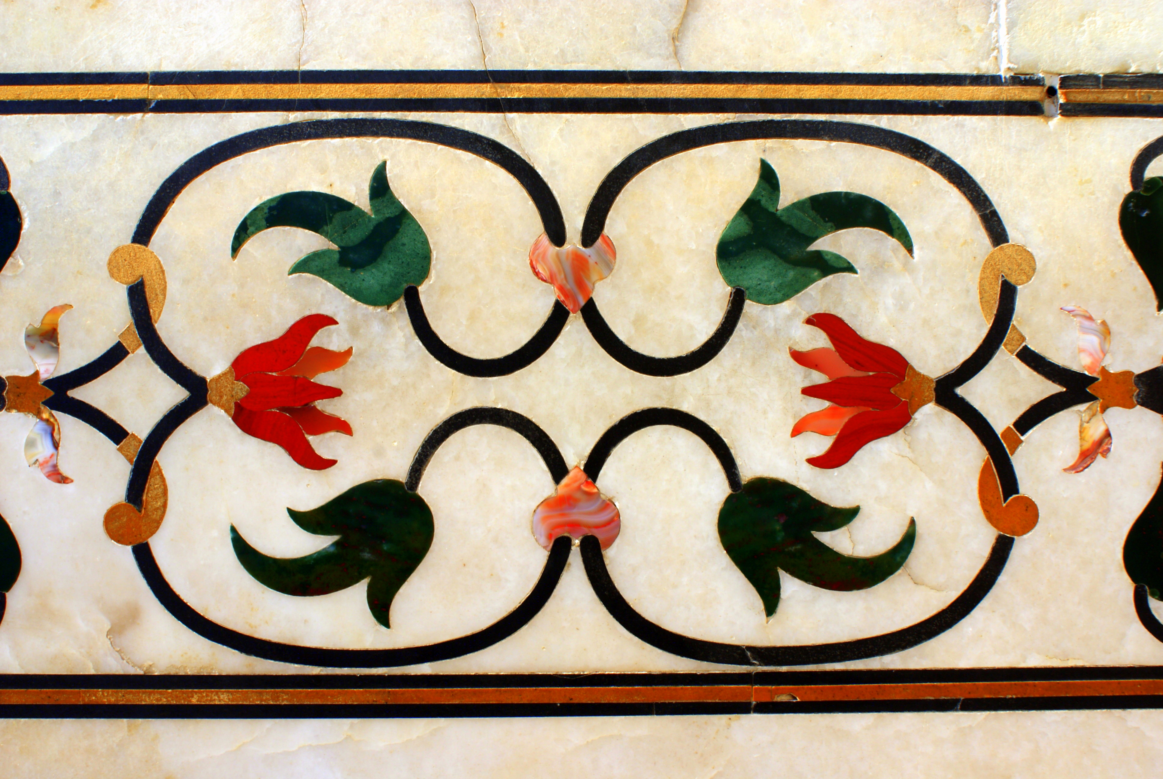 Taj and grounds including the Masjid on the west side, the pavilions on the east and west sides of the grounds; great south entrance gateway and great courtyard surrounded by cloisters.